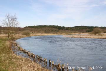 A view north to the Gudenå River close to Sminge Sø.